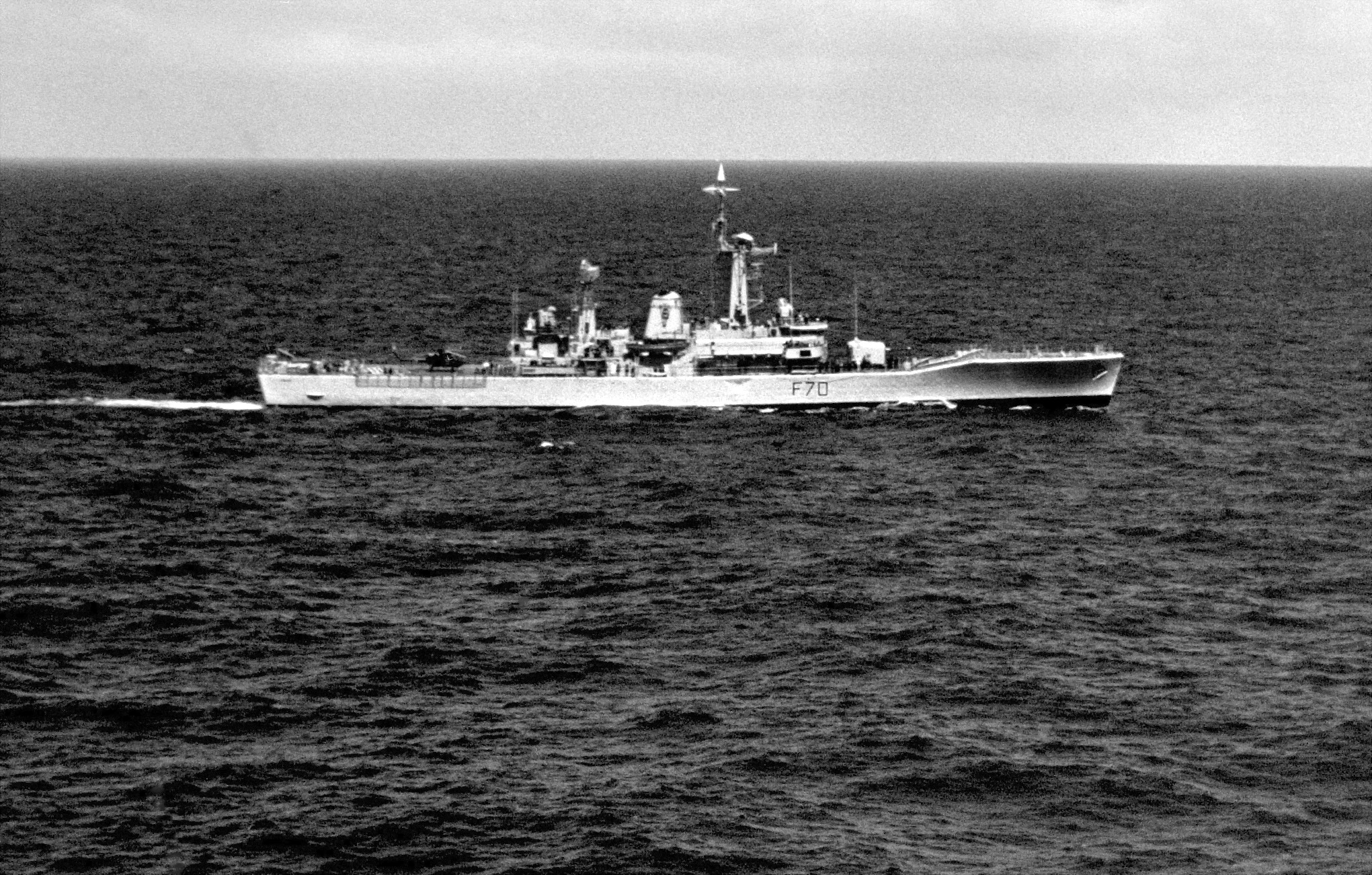 The Royal Navy Leander-class frigate HMS Apollo (F70) underway as seen from the bridge of the U.S. Navy aircraft carrier USS America (CV-66) during "Fleet Exercise 1-86".